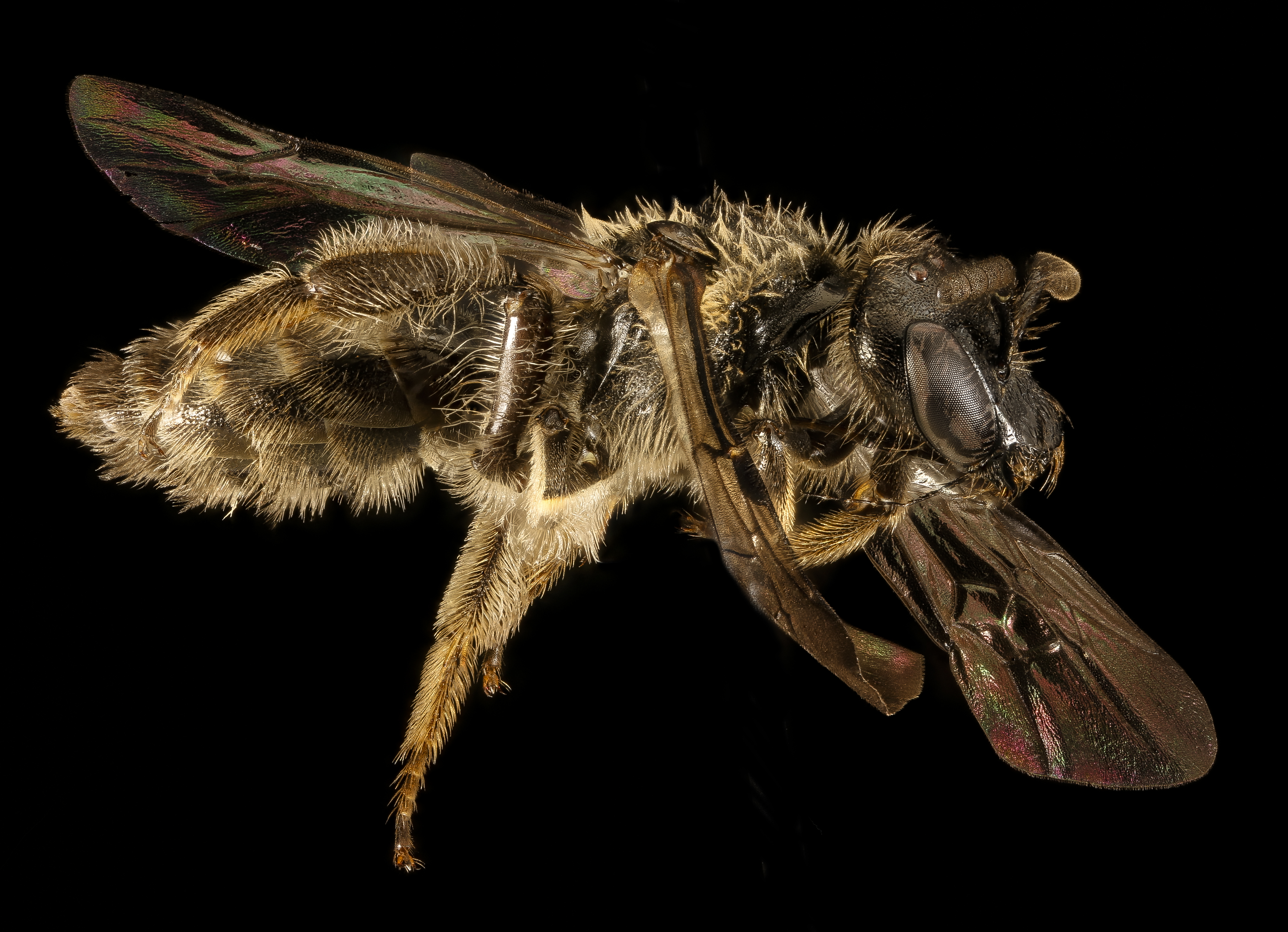 An uncommonly collected species whose status is largely unknow because people don't spend enough time swimming in the mud to look at the bees coming to Pickerelweed. There are 3 eastern uncommon species all from different genera who are specialists on this plant...this is one, and was collected in Maine by Samantha Gallagher. So get out there and see if you can find some more. Photography by Ashleigh Jacobs. 00:22, 3 May 2016 (UTC)00:22, 3 May 2016 (UTC) 0 00:22, 3 May 2016 (UTC)00:22, 3 May 2016 (UTC) All photographs are public domain, feel free to download and use as you wish. Photography Information: Canon Mark II 5D, Zerene Stacker, Stackshot Sled, 65mm Canon MP-E 1-5X macro lens, Twin Macro Flash in Styrofoam Cooler, F5.0, ISO 100, Shutter Speed 200 Beauty is truth, truth beauty - that is all Ye know on earth and all ye need to know " Ode on a Grecian Urn" John Keats You can also follow us on Instagram - account = USGSBIML Want some Useful Links to the Techniques We Use? Well now here you go Citizen: Art Photo Book: Bees: An Up-Close Look at Pollinators Around the World Basic USGSBIML set up: USGSBIML Photoshopping Technique: Note that we now have added using the burn tool at 50% opacity set to shadows to clean up the halos that bleed into the black background from "hot" color sections of the picture. PDF of Basic USGSBIML Photography Set Up: ftp://ftpext.usgs.gov/pub/er/md/laurel/Droege/How%20to%20Take%20MacroPhotographs%20of%20Insects%20BIML%20Lab2.pdf Google Hangout Demonstration of Techniques: or Excellent Technical Form on Stacking: Contact information: Sam Droege 301 497 5840